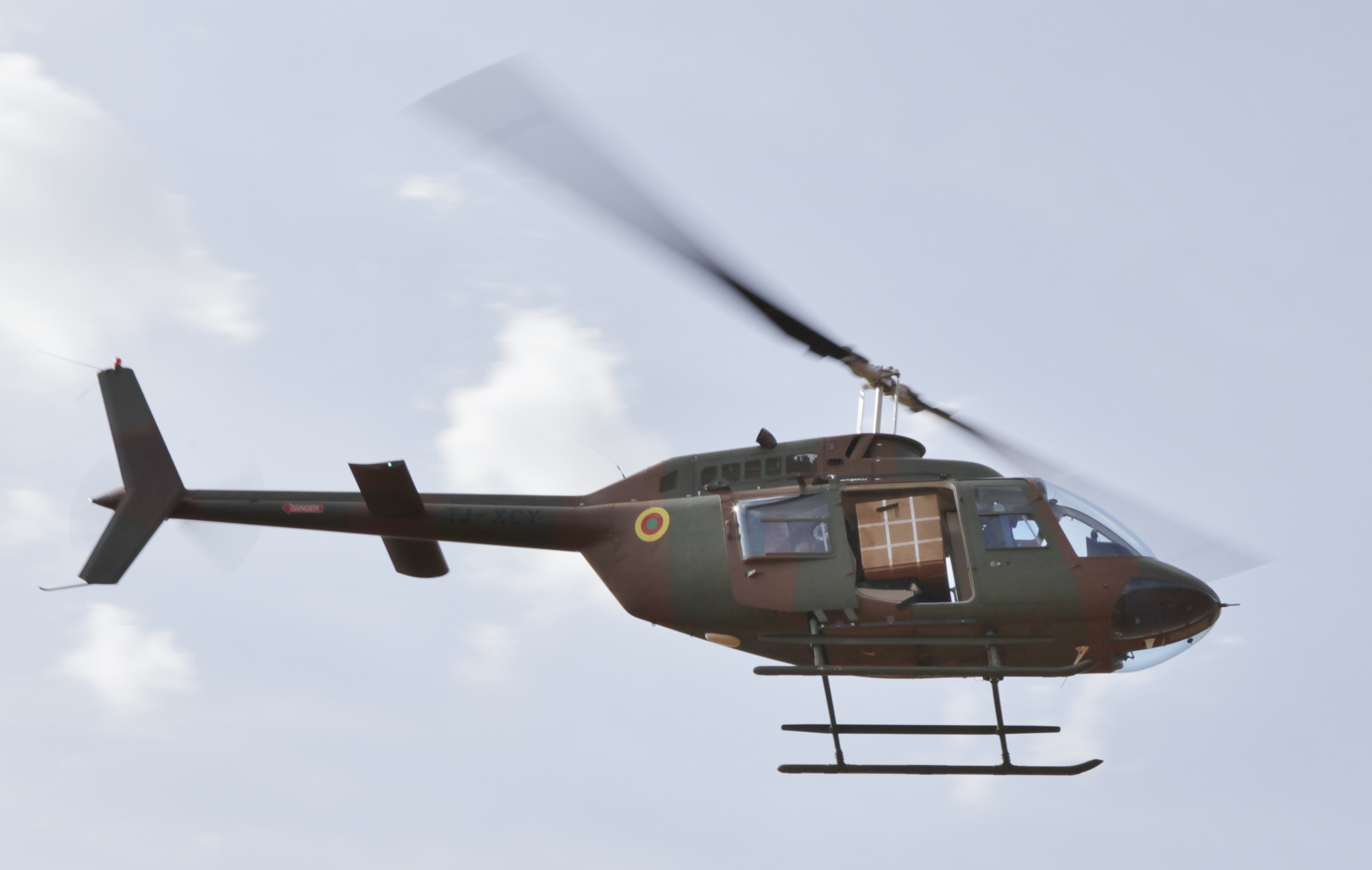 A Cameroonian Air Force B-206 flies over Koutaba Drop Zone during training on Pathfinder Operations as part of Central Accord 2014 (CA14). Koutaba, Cameroon, March 18, 2014. CA14 Cameroon is a combined joint training exercise in order to sustain tactical proficiency, improve multi-echelon operations, and develop multi-national logistical capabilities in an austere forward environment. (U.S. Army photo by SPC Brady Pritchett)(Released)